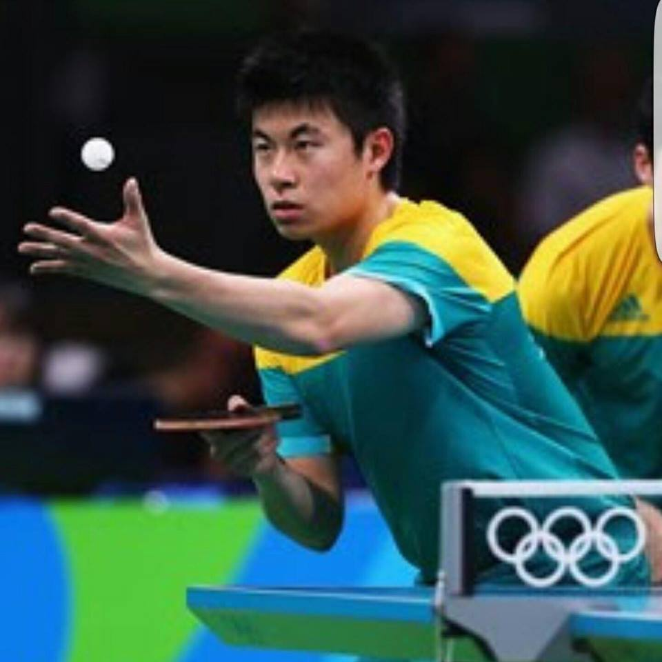 Heming competing at the 2016 Rio Olympic Games